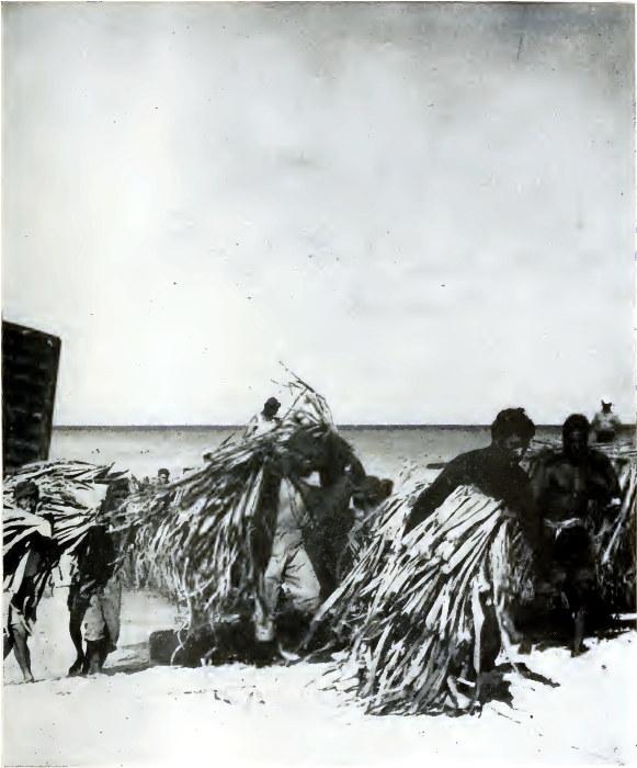 Moving Day, Bikini to Rongerik: On March 7, 1946, the population of Bikini was moved to Rongerik in LST 1108, a total of 161 persons making the trip. Rongerik had been the first choice of nine of the eleven family heads, called alaps, as the new home for the evacuees. The islanders are unloading the Pandanus they gathered on Bikini Island to thatch the roofs of their new homes on Rongerik Island.